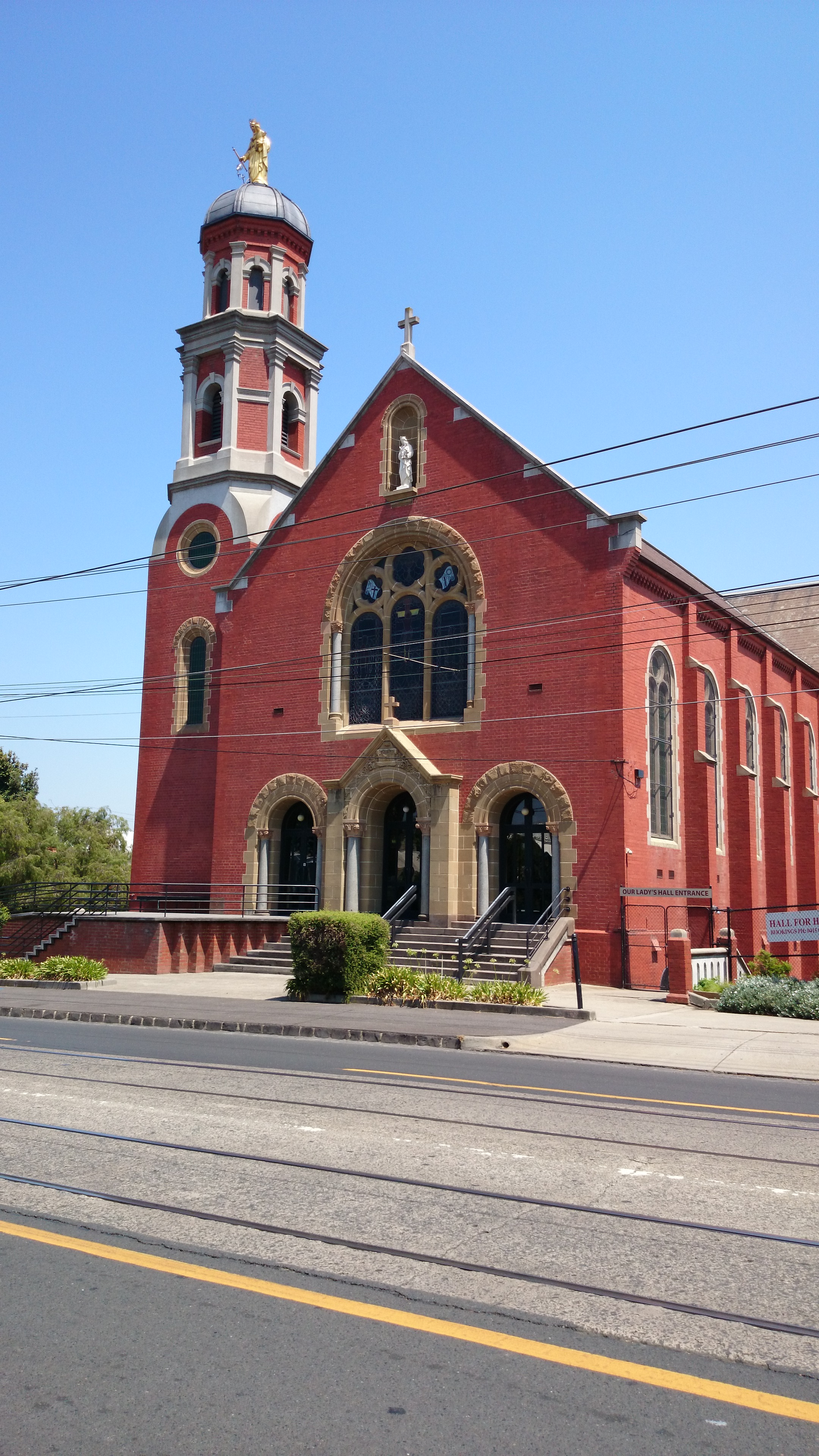 Our Lady's Hall on Nicholson Street in Carlton North.